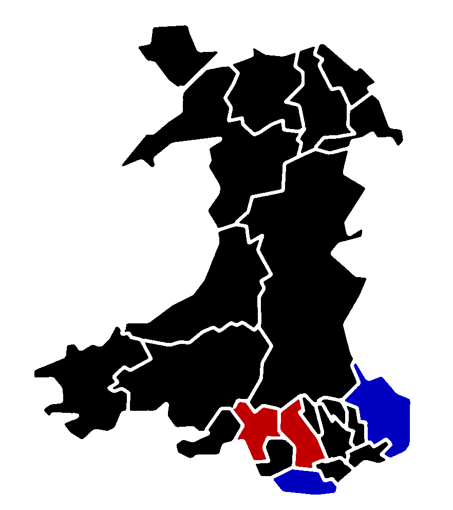 This is a map of the result of the 2008 local elections in Wales. This map shows all 22 unitary authorities colour-coded by their status after the election. Key: Labour control Conservative control No Overall Control